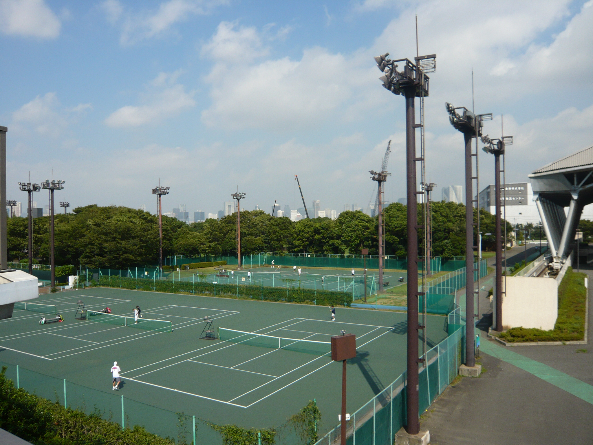 Ariake Tennis Park(有明テニスの森公園) in Koto-ku,Tokyo,Japan.